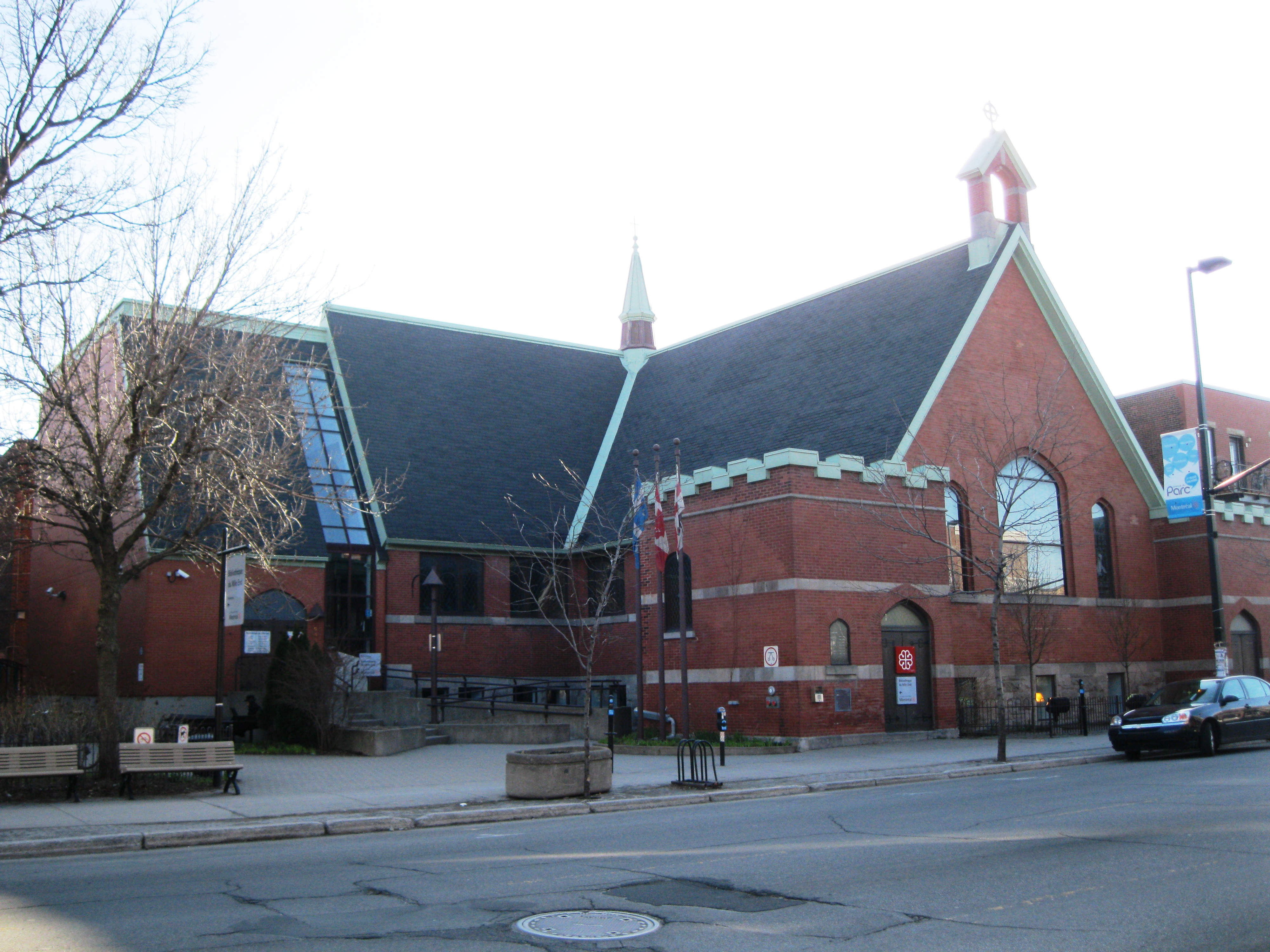 The Mile End library is a Montreal municipal public library in the Le Plateau-Mont-Royal district. Since 1993 it has been housed in the former Ascension Anglican Church, at 5434, avenue du Parc.